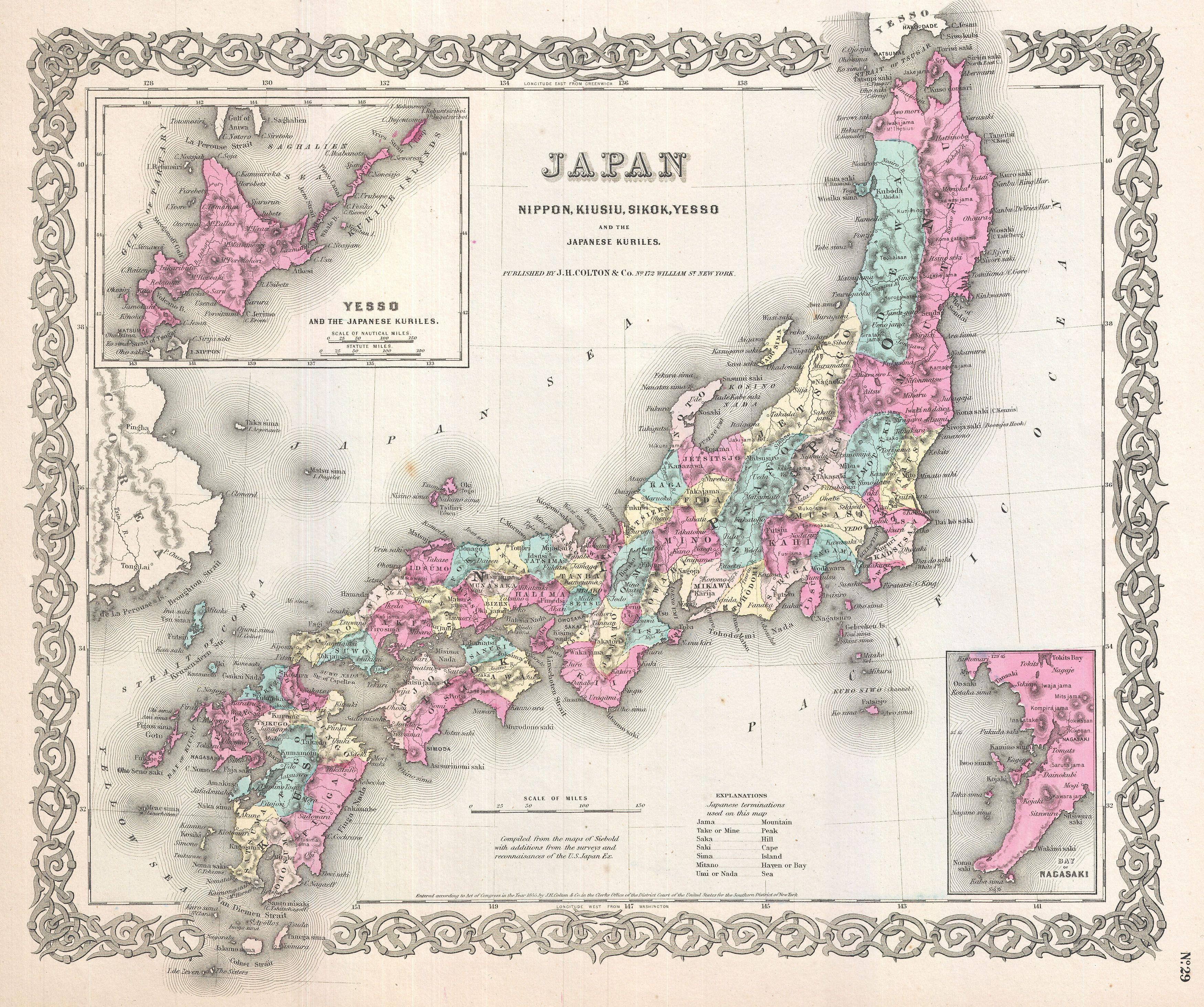 A beautiful 1855 first edition example of Colton's map of Japan. Compiled from the maps of Siebold and from the 1850 U.S. Japan Expedition (Perry). Covers the Japanese Islands from Kiusiu north to Yesso (Hokkaido). Offers considerable detail with color cording according to province. An inset map in the upper right focuses on Hokkaido or Yesso and the Japanese Kuriles. Another inset in the lower right quadrant details the Bay of Nagasaki. Throughout, Colton identifies various cities, towns, rivers and assortment of additional topographical details. Surrounded by Colton's typical spiral motif border. Dated and copyrighted to J. H. Colton, 1855. Published from Colton's 172 William Street Office in New York City. Issued as page no. 29 in volume 2 of the first edition of George Washington Colton's 1855 Atlas of the World .